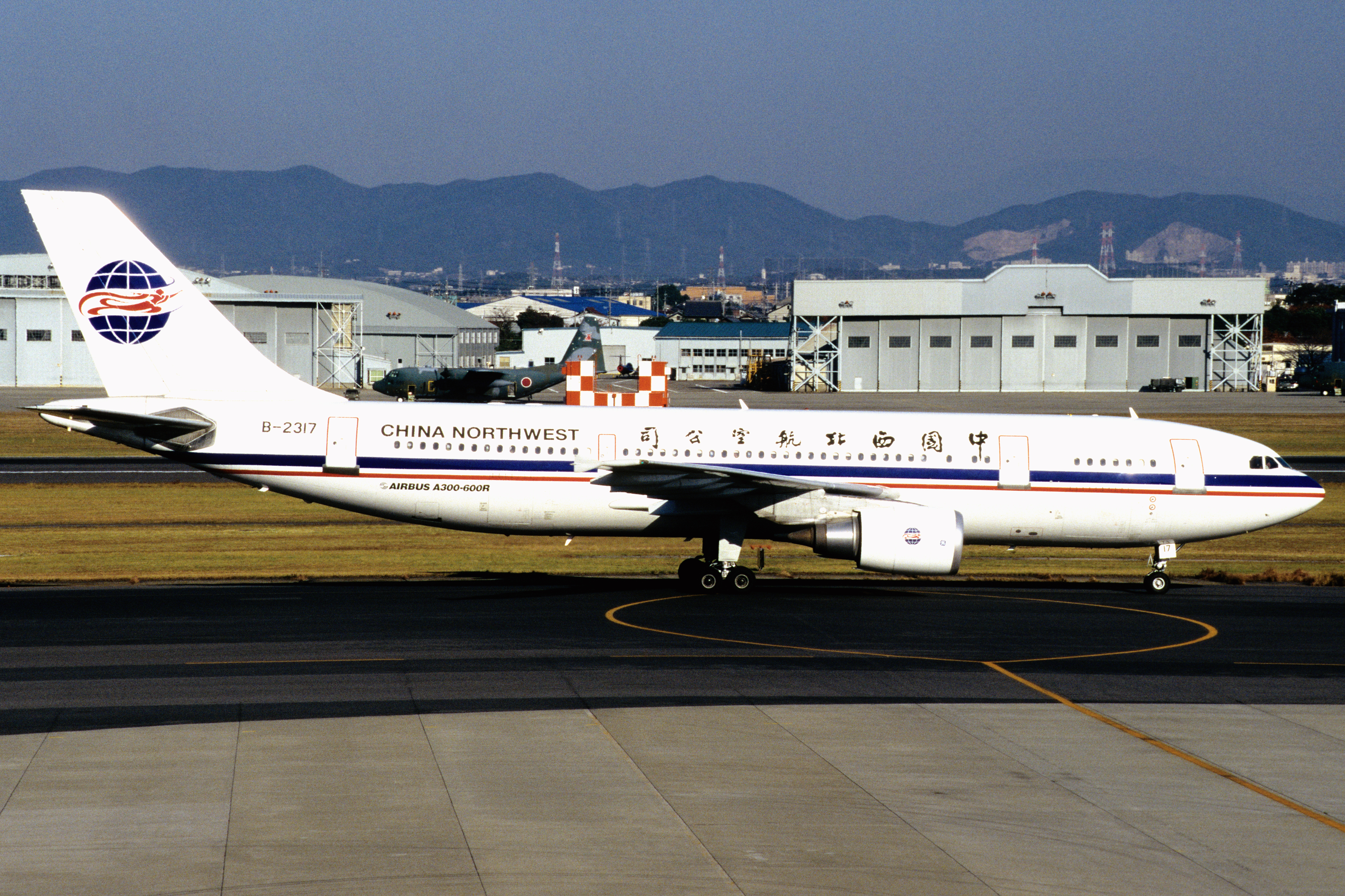 HIstoric Photo